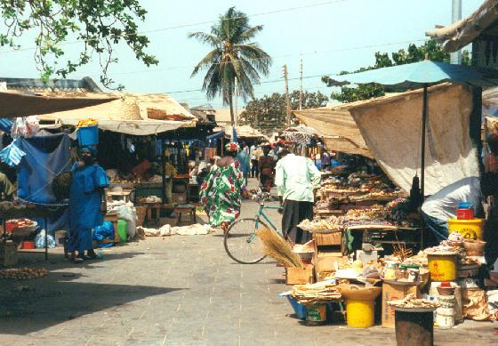 Banjul, Albert market